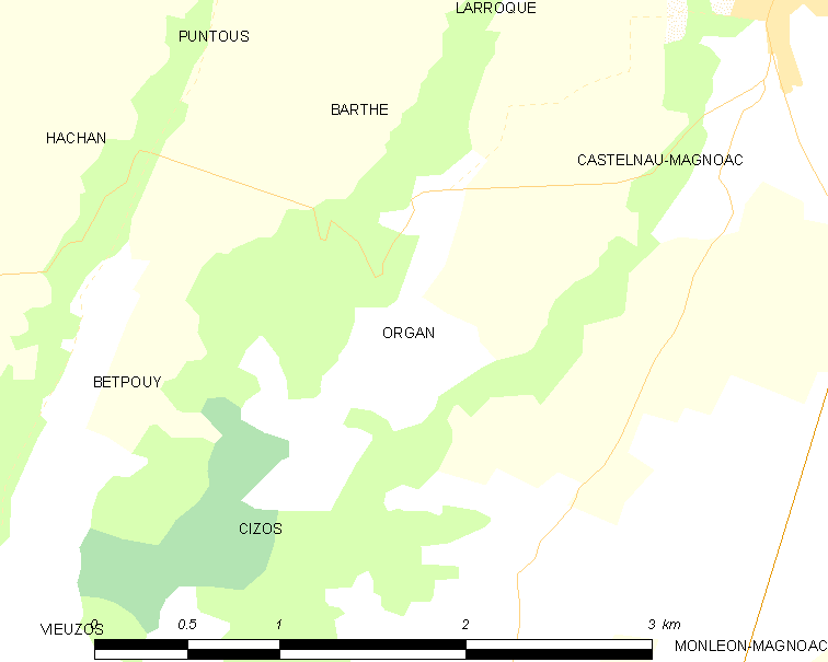 Map of French municipality